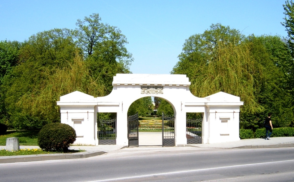 Town Park in Zamość - main entrance gate from the south at Akademicka Street